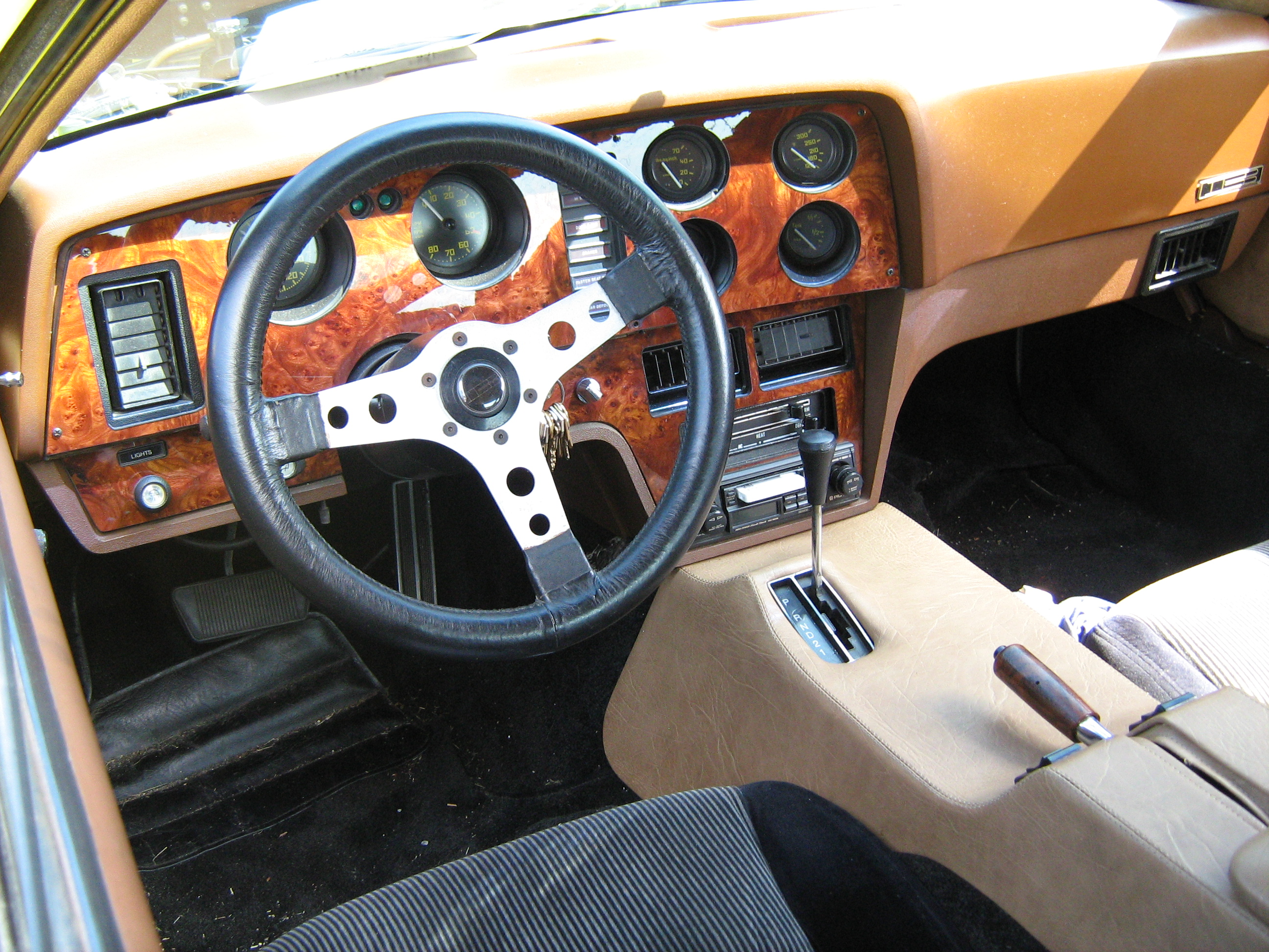 1974 Bricklin SV-1 sports car - interior view and dashboard. Standard American Motors (AMC) powertrain including the 360 CID (5.9 L) V8 engine and three-speed automatic transmission.